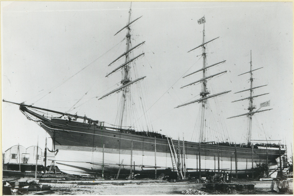 The Kapunda on Fletcher's Slip at Port Adelaide. The Kapunda collided with the Ada Melmoure on 20 January 1887, with the loss of 303 lives.